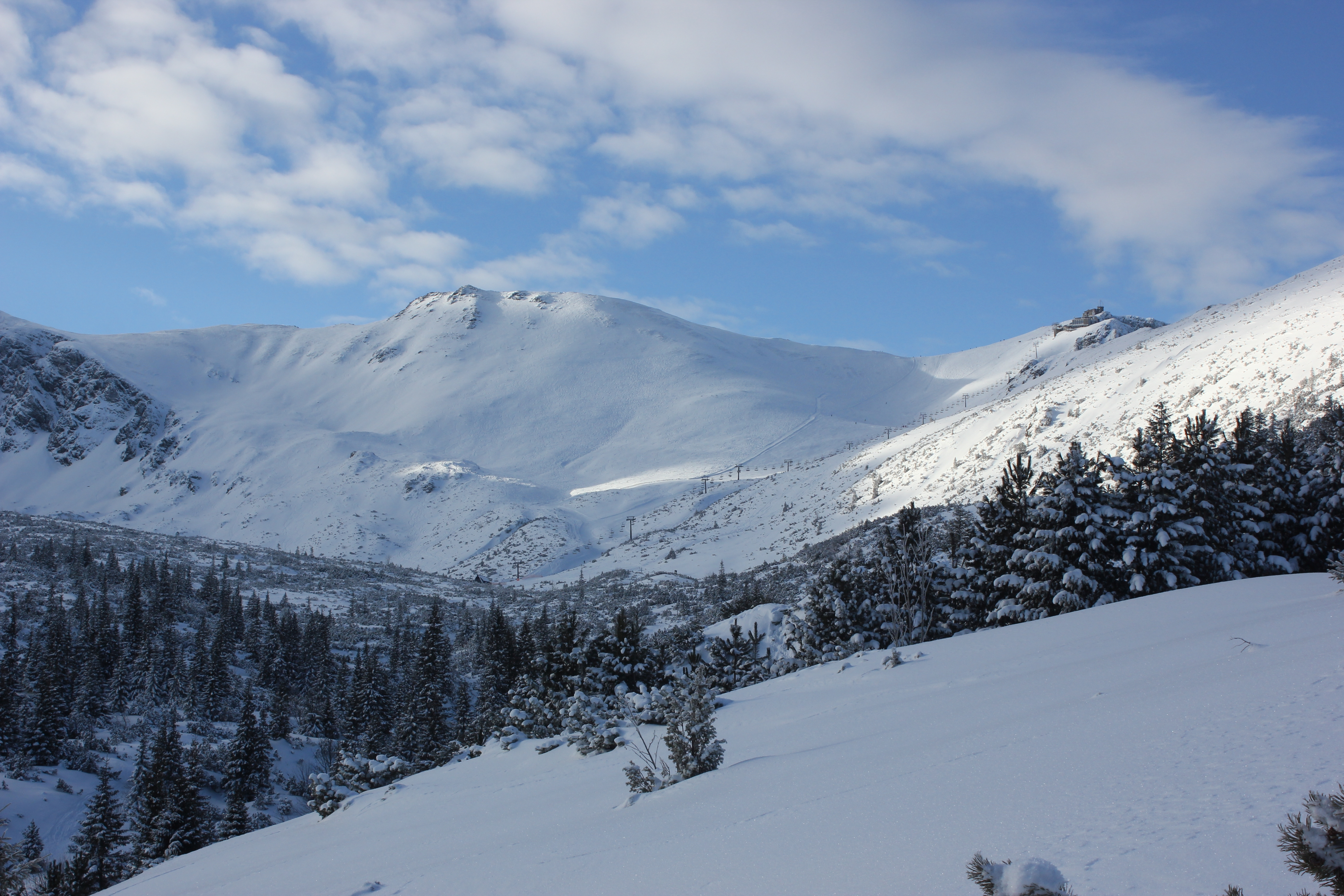 Hala Gąsienicowa